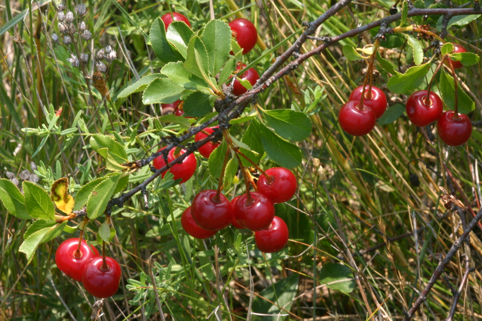 Prunus fruticosa